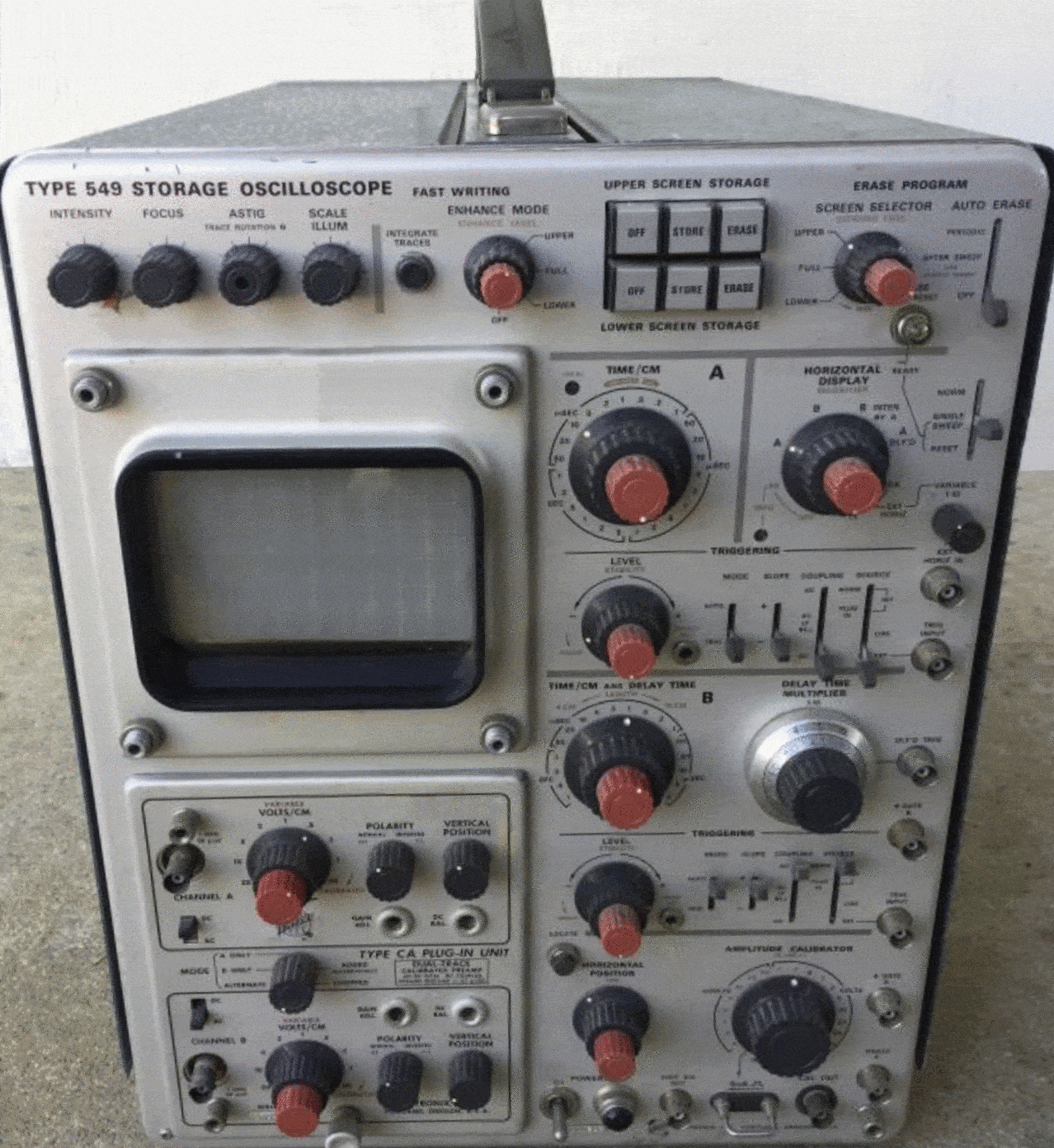 CRT storage analog oscilloscope Tektronix type 549 was introduced in 1966 and discontinued after 1973. The vertical amplifier operated in the frequency range from DC voltage up to 30 MHz. The number of channels and their properties could be changed using the plug-in units 1A1, 1A2, 1A3, 1A4 (four input channels and the 50 MHz frequency band range) and 1A5. Oscilloscope consisted of 59 Vacuum Tubes + 35 Transistors; dimensions: 13 x 17 x 24 inch / 330 x 432 x 610 mm; Power consumption: 650W, 750 VA; Weight: 31 Kg or 68 lb.